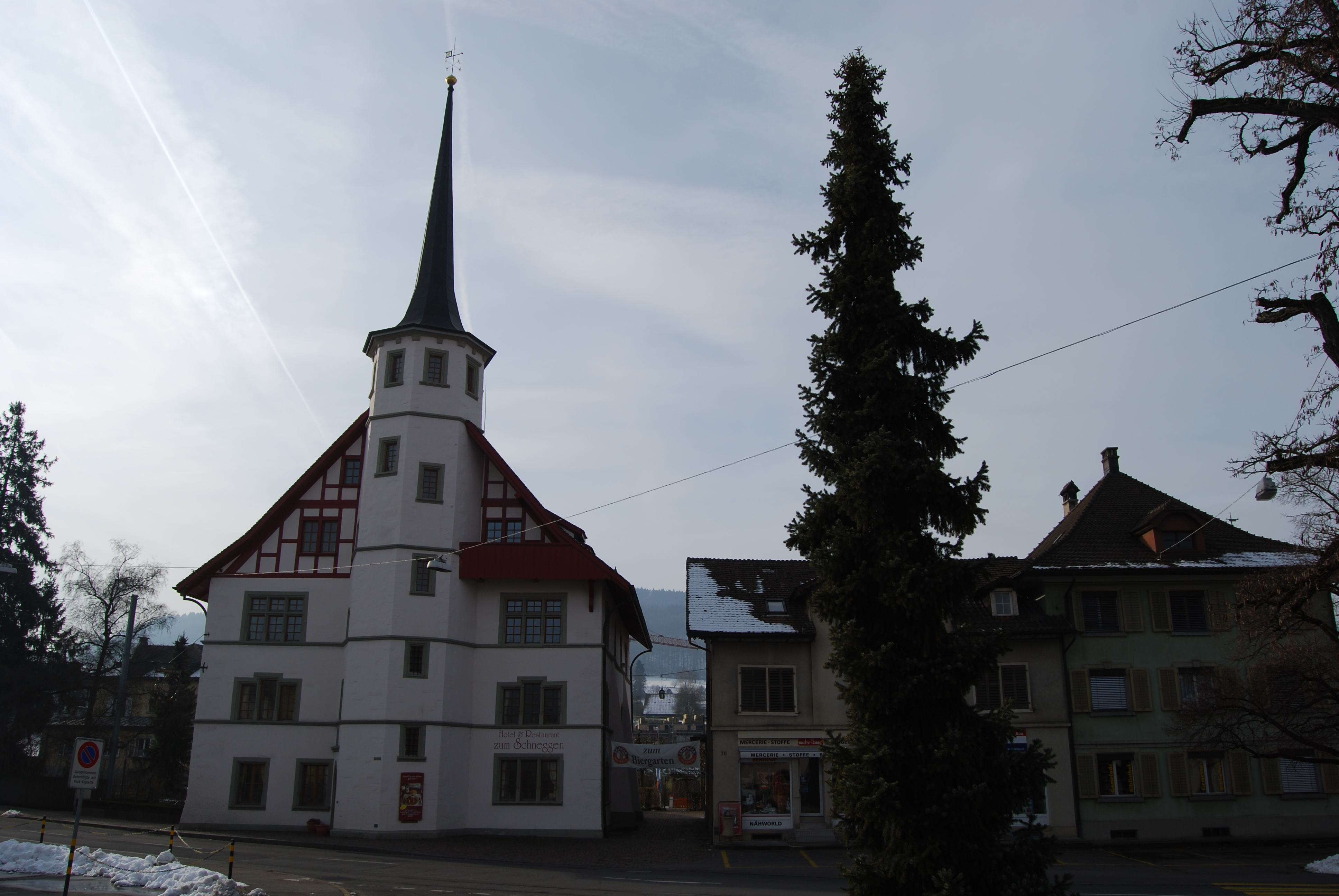 House "zum Schneggen", former site of the Deputy Vogt of Reinach, canton of Aargau, SwitzerlandEsperanto: Domo zum Schneggen, iama sidejo de la subvokto de Reinach, Kantono Argovio, Svislando